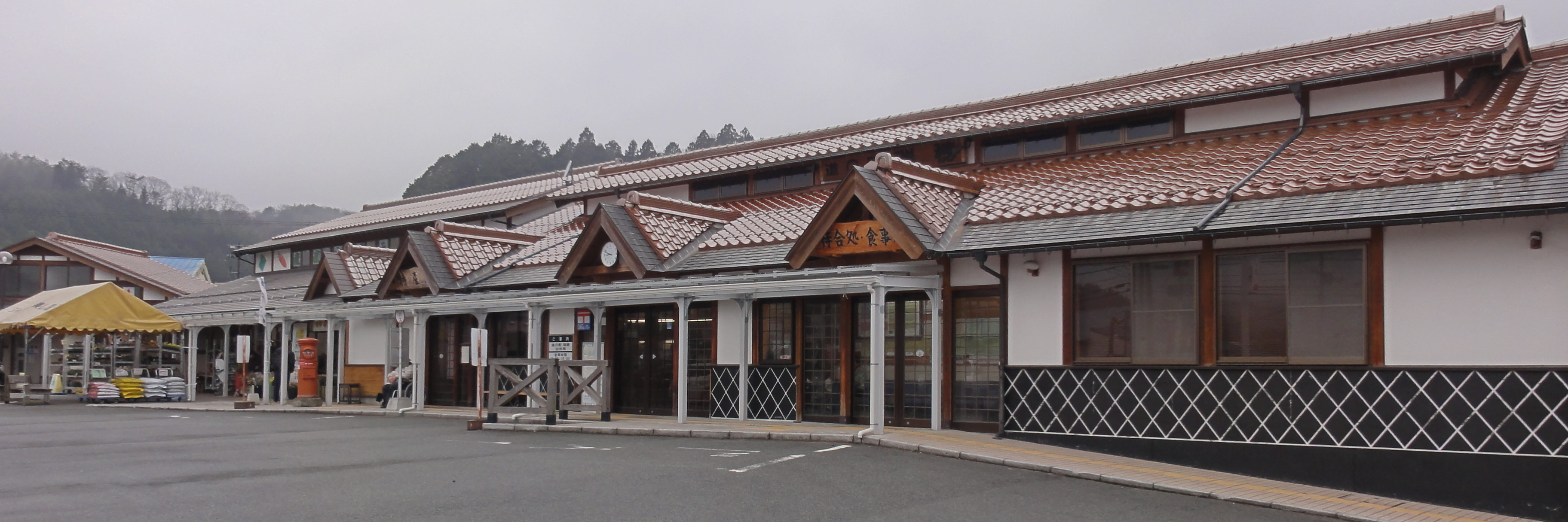 Road to station Mizuho,Shimane prefecture,Japan